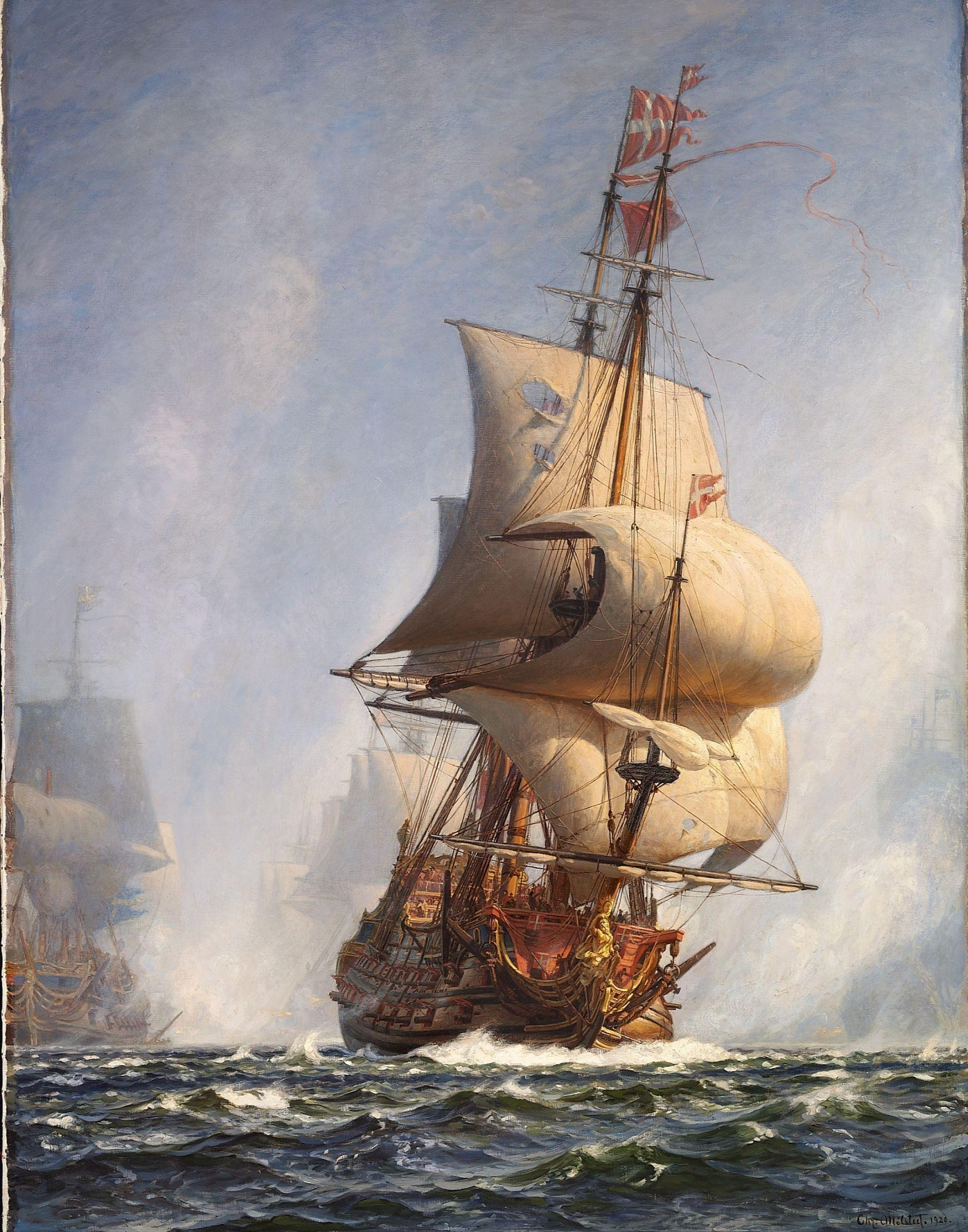 The breakthrough in the Battle of Køge Bay on July 1st 1677. In the foreground the flagship Christianus Qvintus).